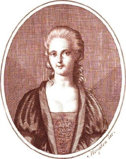 Anna Maria Arduino, Sicilian female painter